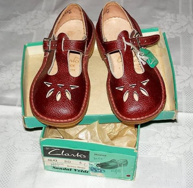 Clarks Joyance children's t-bar sandals made in England from the 1930s to 1970s